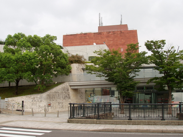 Nagasaki Atomic Bomb Museum from ja.wikipedia (:ja:画像:Nagasakigenbaku.jpg) Photo by :ja:User:海人 on August 30, 2006